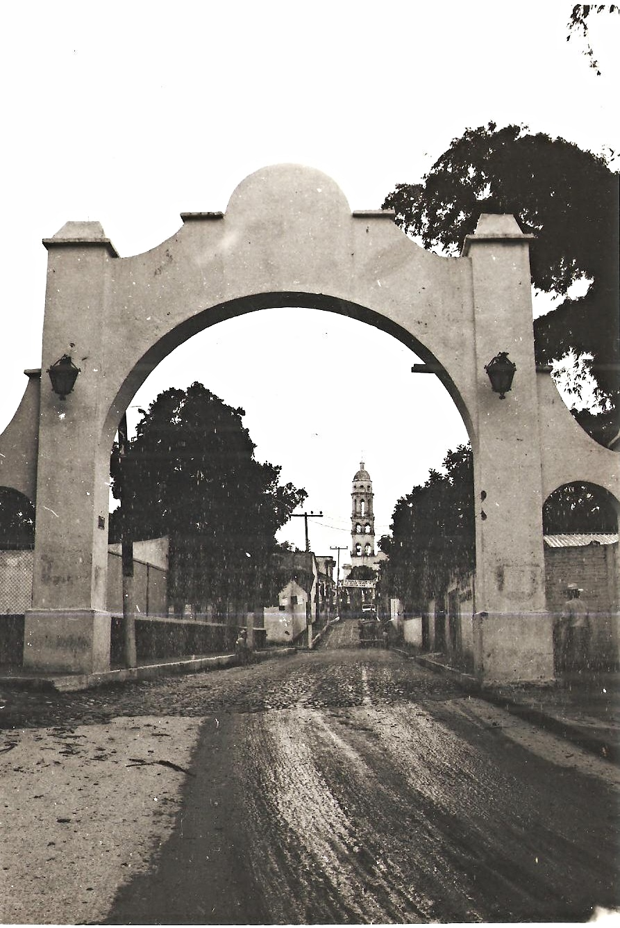 Cosalá